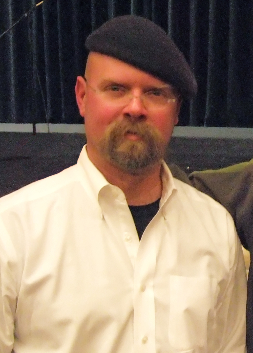 Jamie Hyneman, best known for being the co-host of the television series MythBusters.